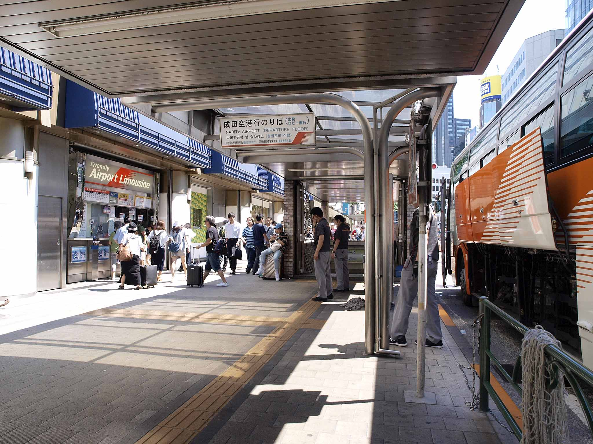 Shinjuku Station Bus Stop No.23, for Narita International Airport operated by Airport Transport Service